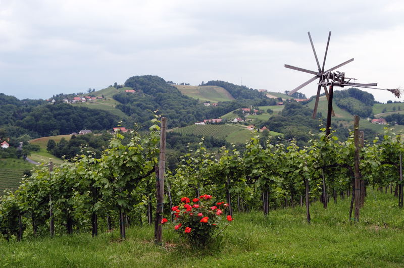 A typical landscape in the Sausal mountain rage